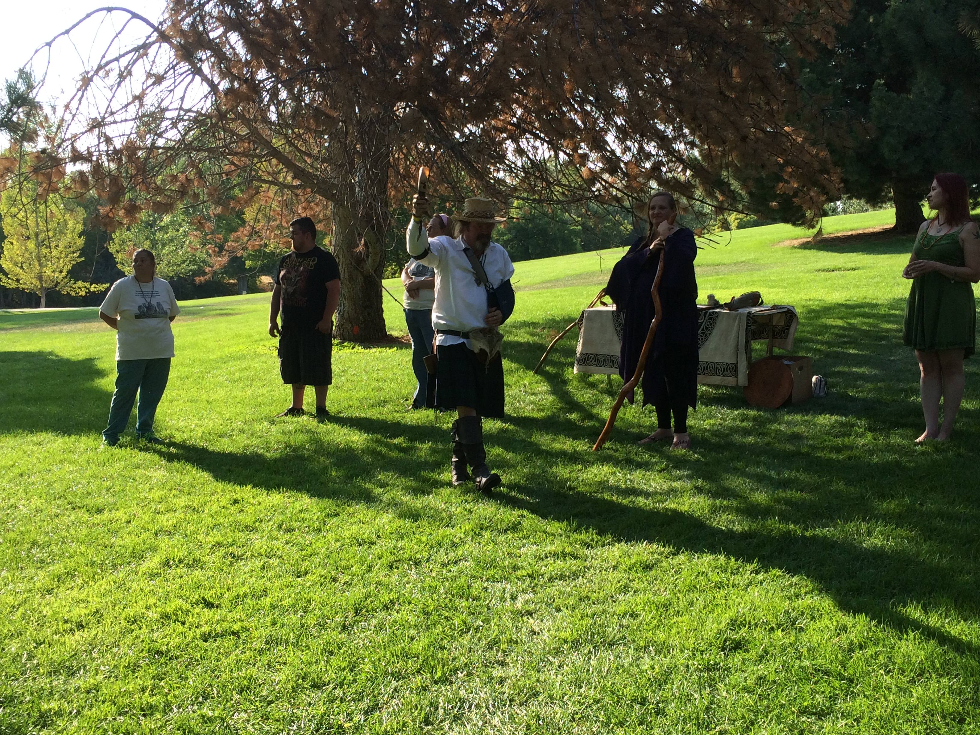 Harts Hearth Clan of Tooele, Utah performing the closing Norse rite, Salt Lake City Pagan Pride Day 2015, Murray City Park, Utah, USA